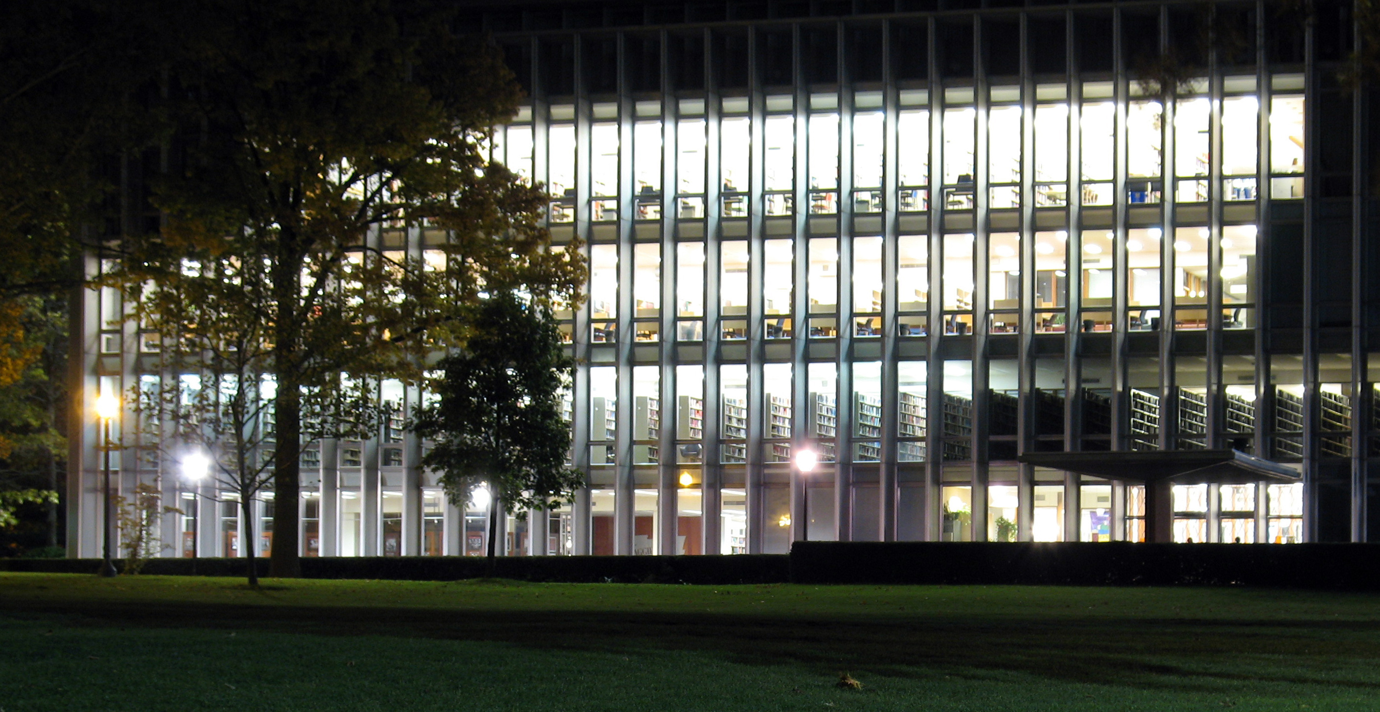 Public Photo from Flickr- It is held under an "attribution" license, by Flickr user "cpt".